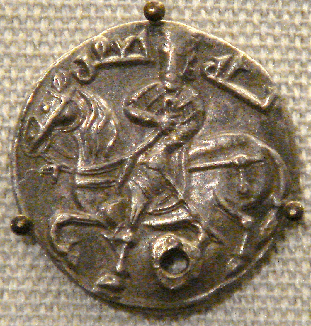 Abbasid_Iraq_908_930_Shahi_inspired coin